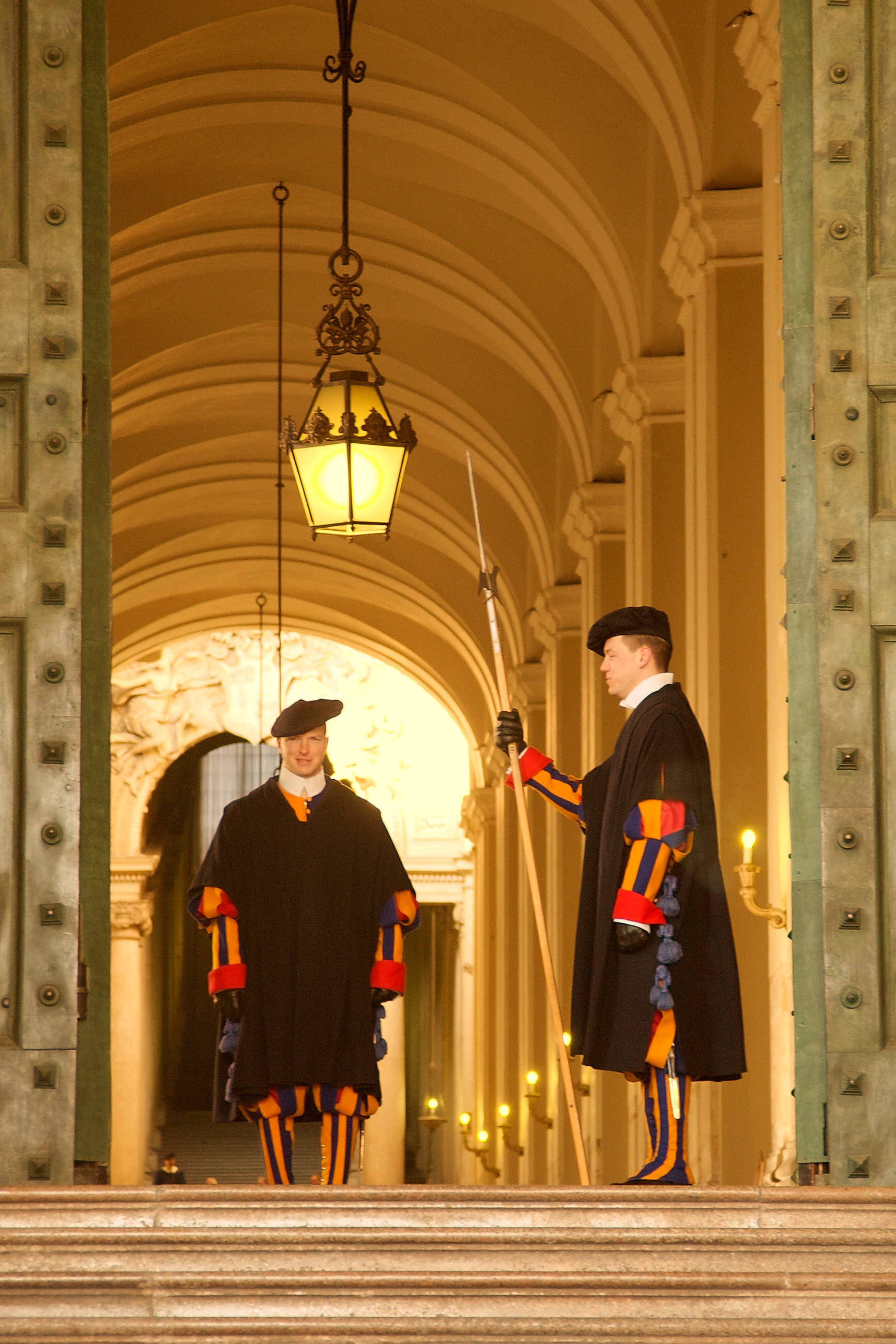 Swiss guard in winter cloak standing guard at the Bronze Door.